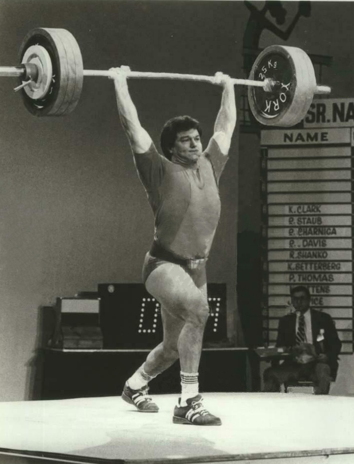 1984 Press Photo Olympic Weightlifter Mike Davis on The World of Tomorrow